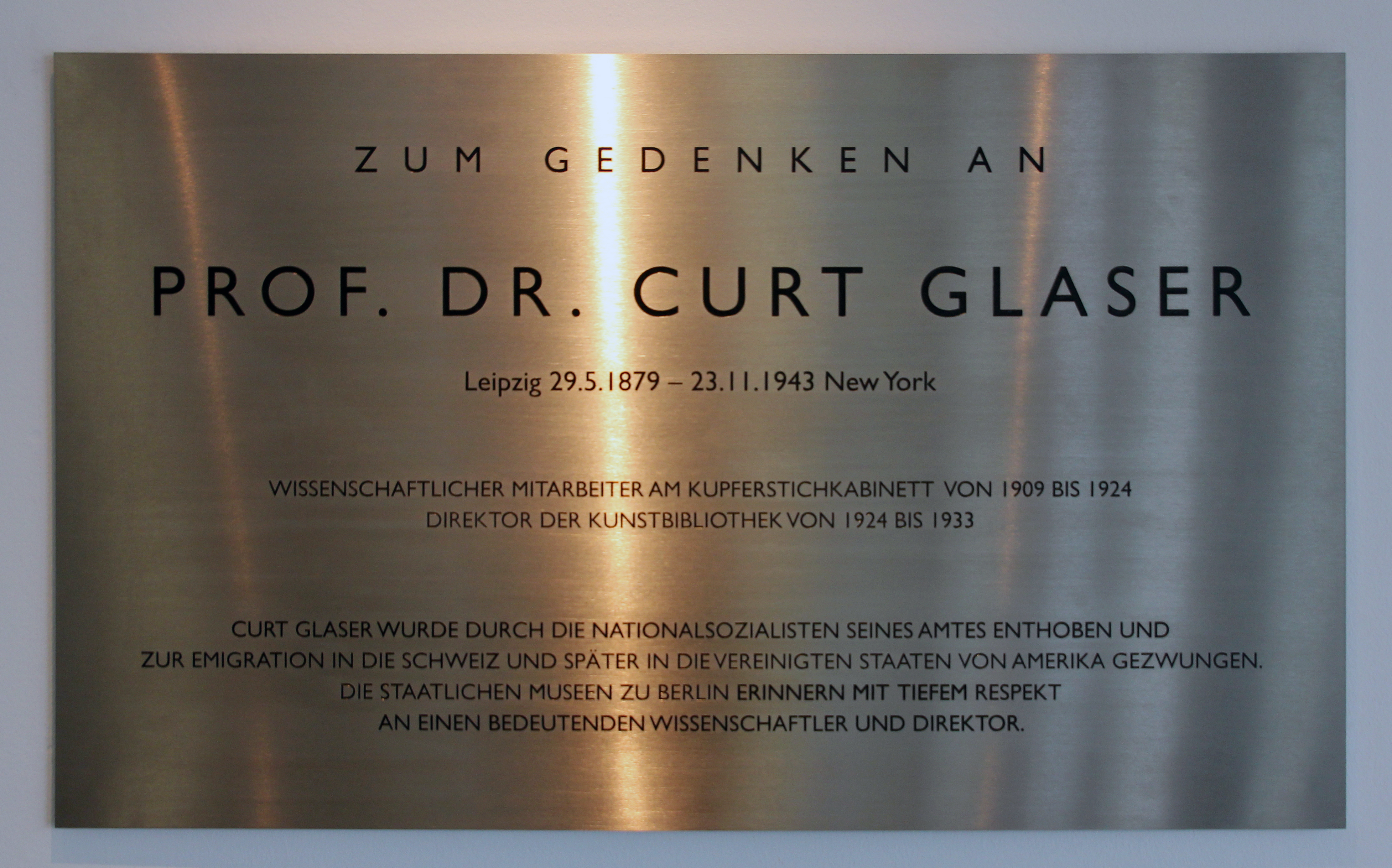 Memorial plaque, Curt Glaser, Matthäikirchplatz 8, Berlin-Tiergarten, Deutschland